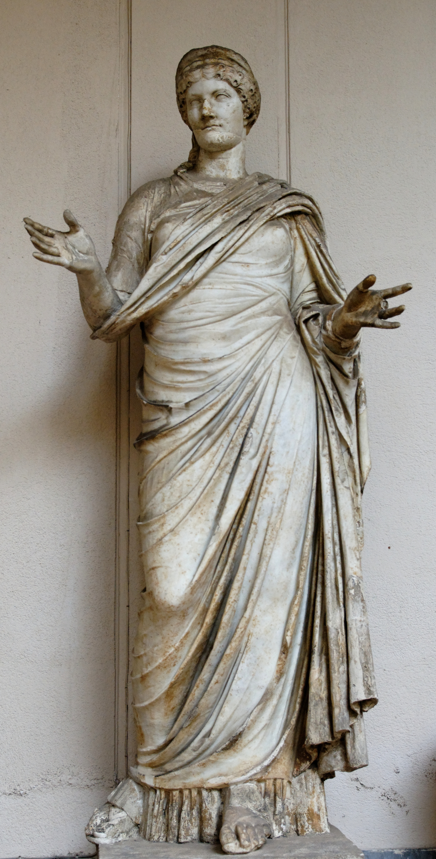 Agrippina the Elder with tunic and cloak. Marble and some stucco additions, Roman artwork, 1st century AD after the type of the Large Herculaneum Woman, attributed to Praxitele; the head may not belong to the statue. From Tindari (province of Messina), Sicily.